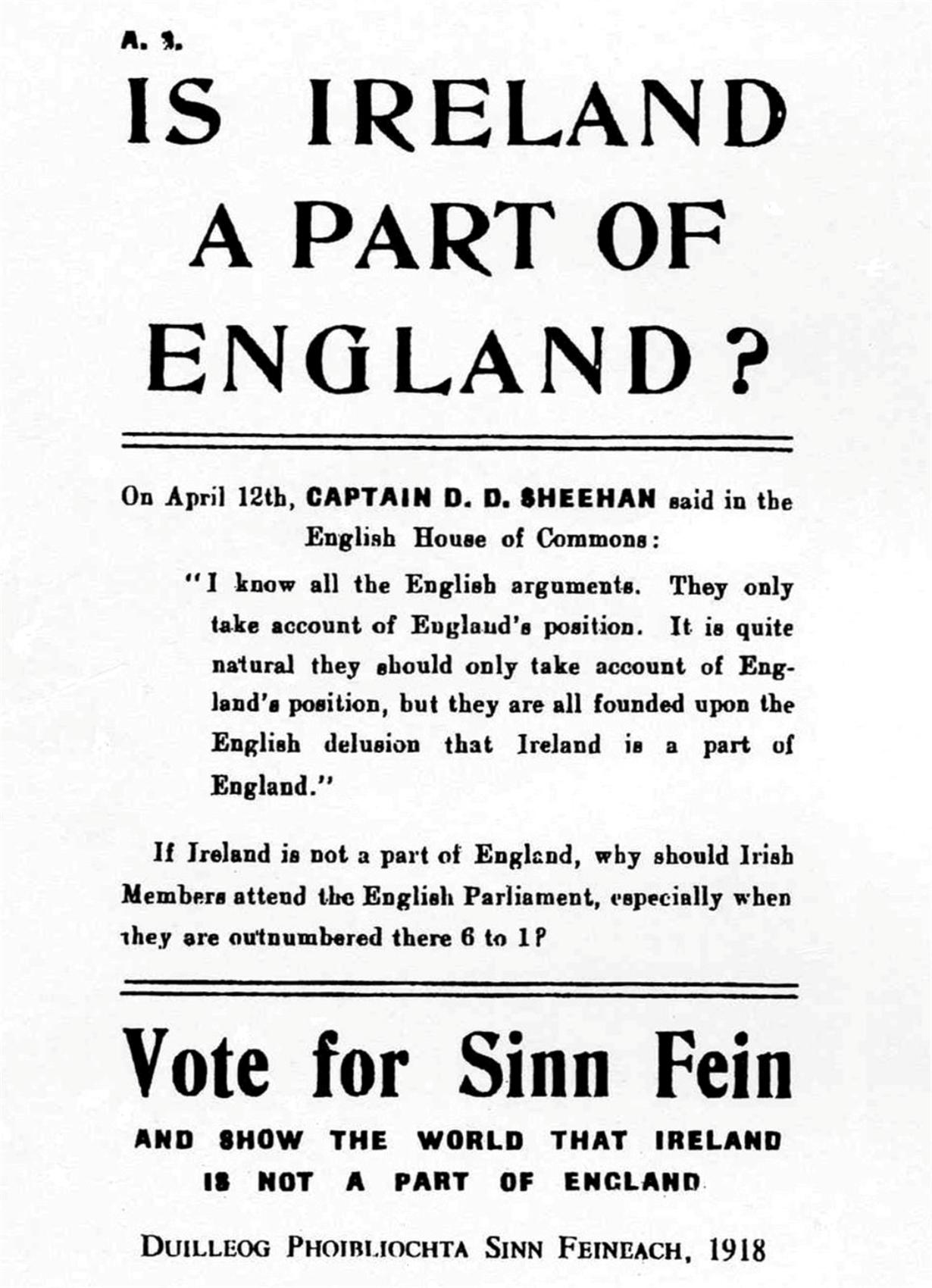 Sinn Féin election poster in 1918, quoting D. D. Sheehan MP, leading up to the December 1918 general election in Ireland.